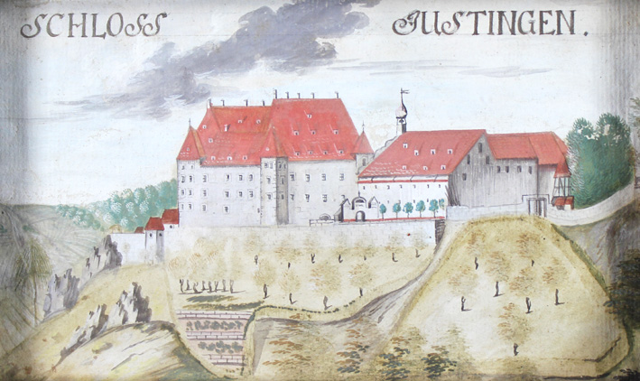 Justingen castle from east-northeast, 18th century, watercolour on handmade paper